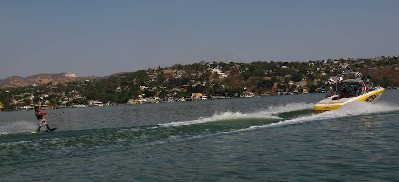 Sports and tourism at Tequesquitengo Lake